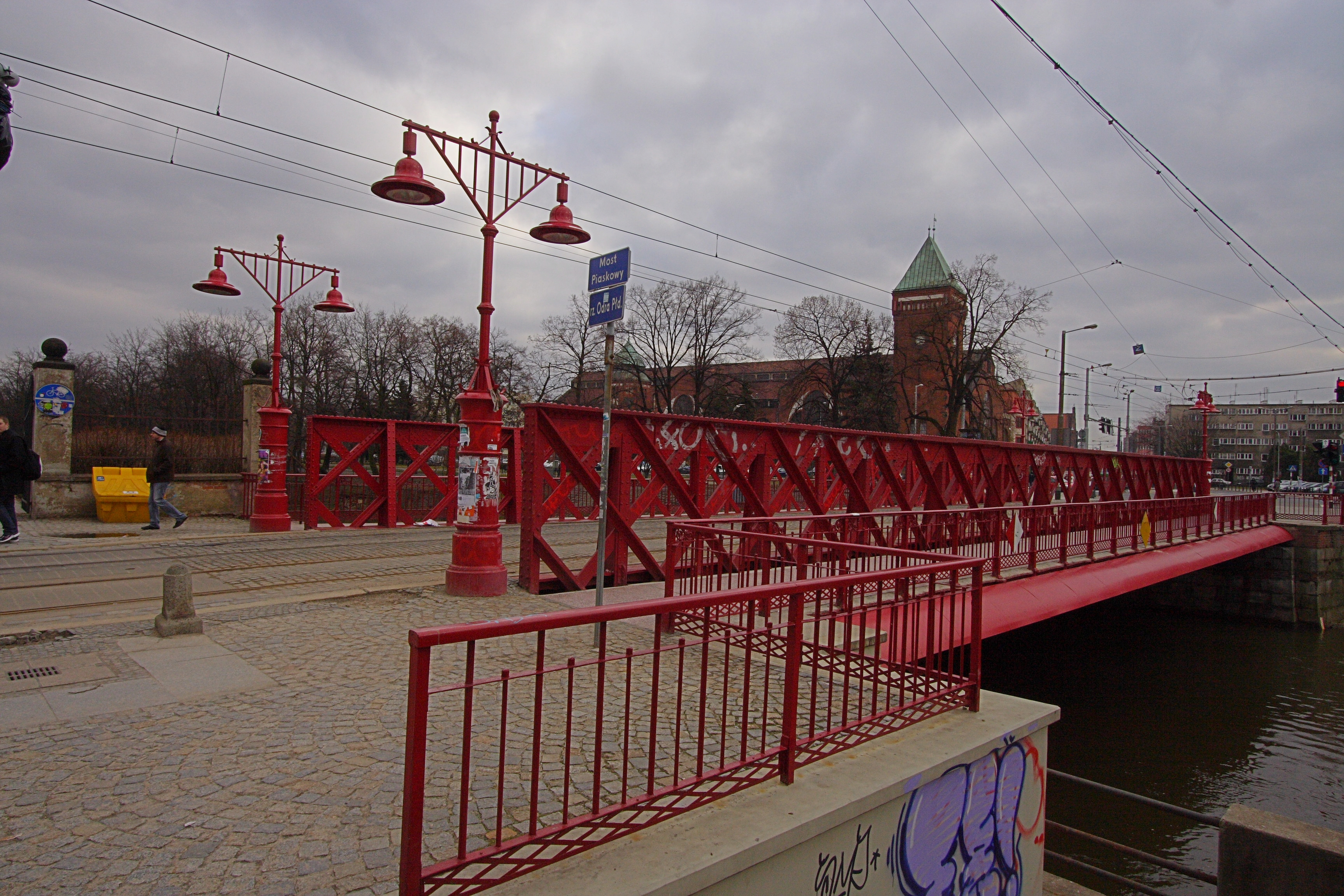 Wroclaw during WikiConference Poland'11